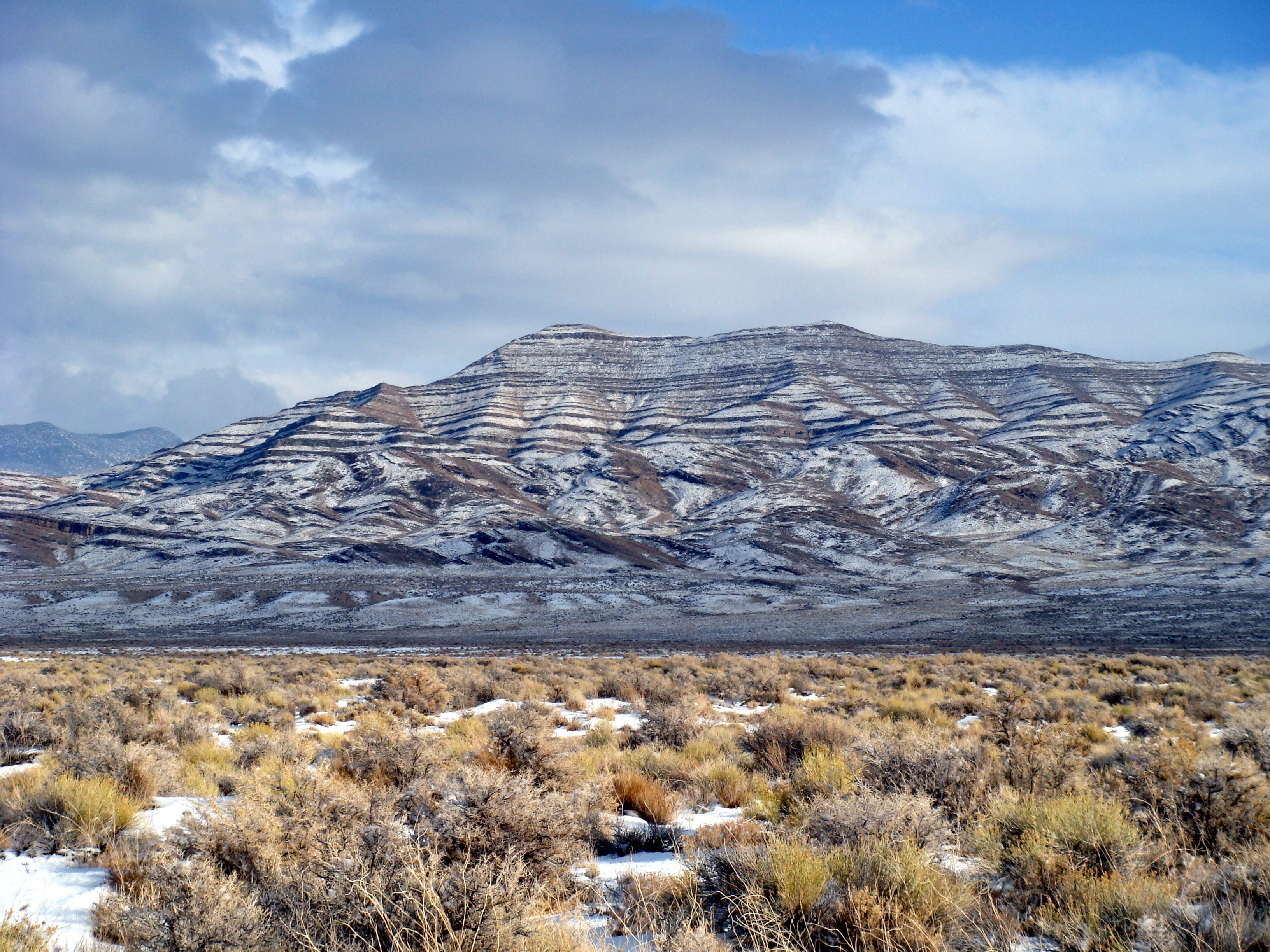 Snow on the hills around Willow Springs Canyon, Confusion Range, Utah. (taken near Old US 6/US 50, near Cowboy Pass-view looking east)